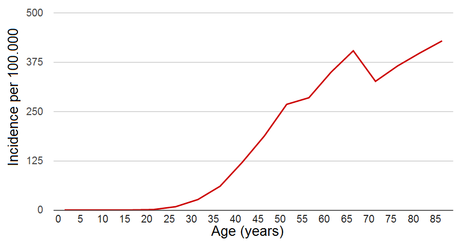 Breast cancer incidence by age in women in the United Kingdom 2006-2008. Reference: Excel chart for Figure 1.1: Breast Cancer (C50), Average Number of New Cases per Year and Age-Specific Incidence Rates, UK, 2006-2008 at Breast cancer - UK incidence statistics at Cancer Research UK. Section updated 18/07/11.